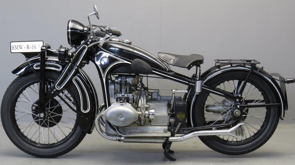 1933 BMW R16 750 cc ohv motorcyle